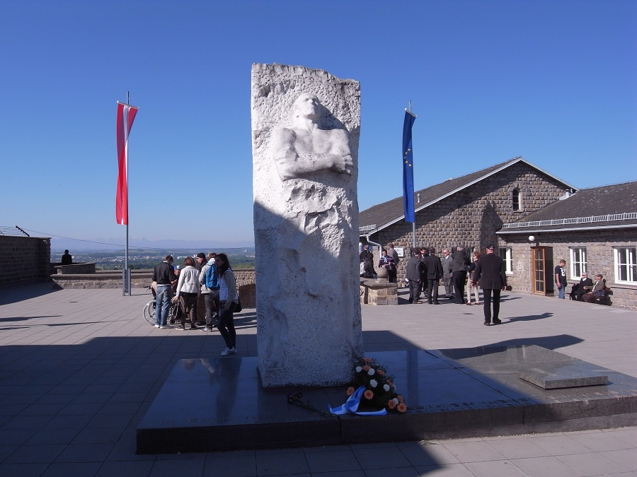 A monument to Dmitry Mikhailovich Karbyshev (14 (26) October 1880, Omsk, Russia - 18 February 1945, concentration camp Mauthausen, Austria) - leutenant-general of the Engineer Corps of the Soviet Army, Hero of the Soviet Union. The monument stays on the territory of the formet concentration camp Mauthausen